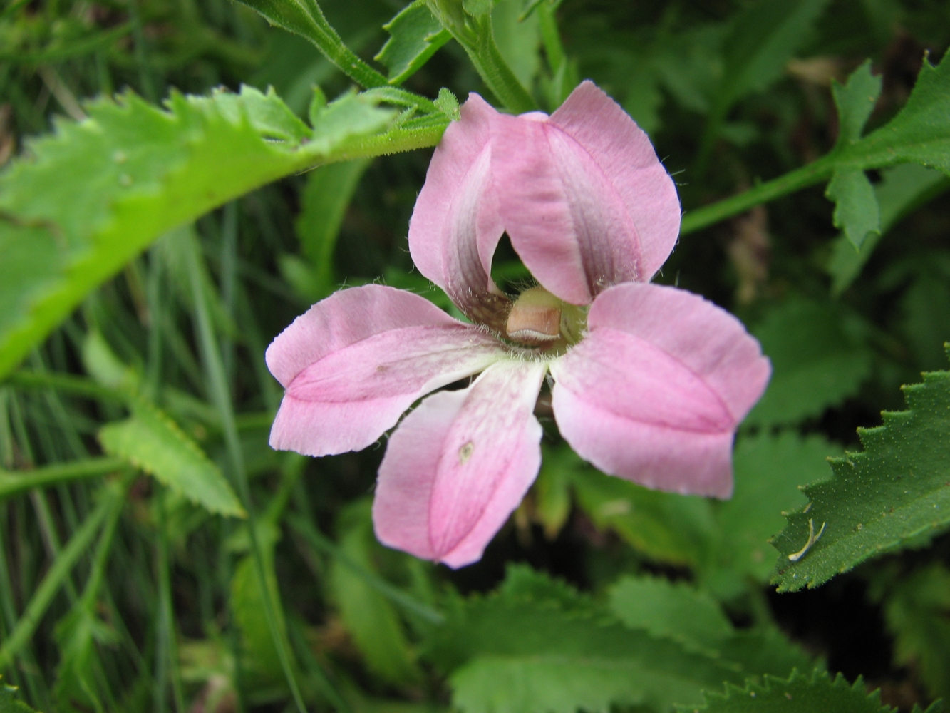 Goodenia macmillanii (cultivated, labelled), Royal Botanic Gardens Melbourne, Australia